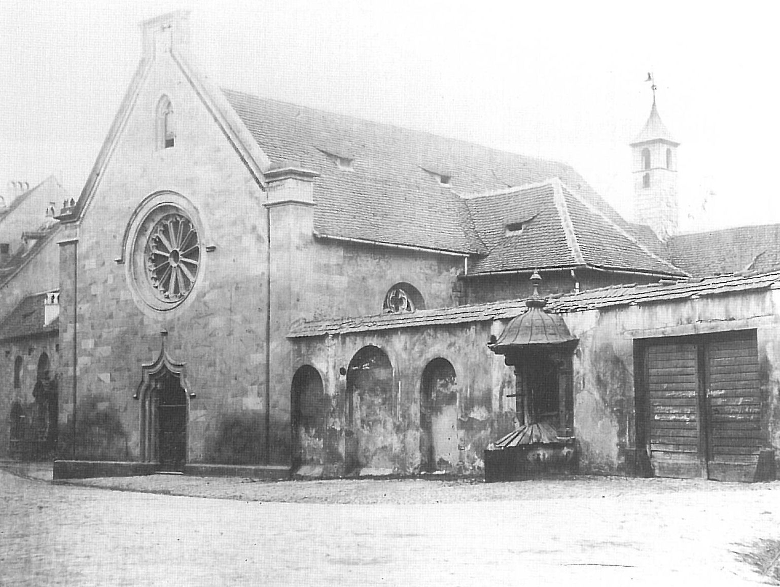 historic photography of Bamberg, Germany